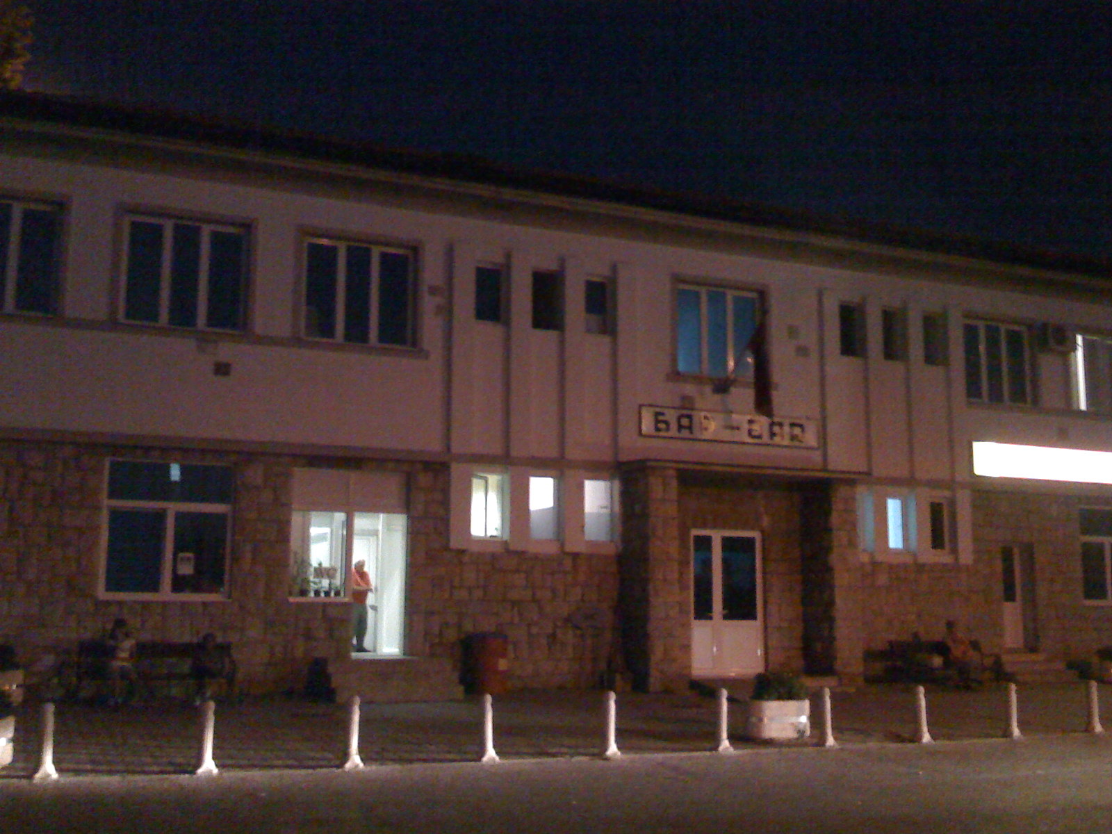 Main railway station in Bar, Montenegro